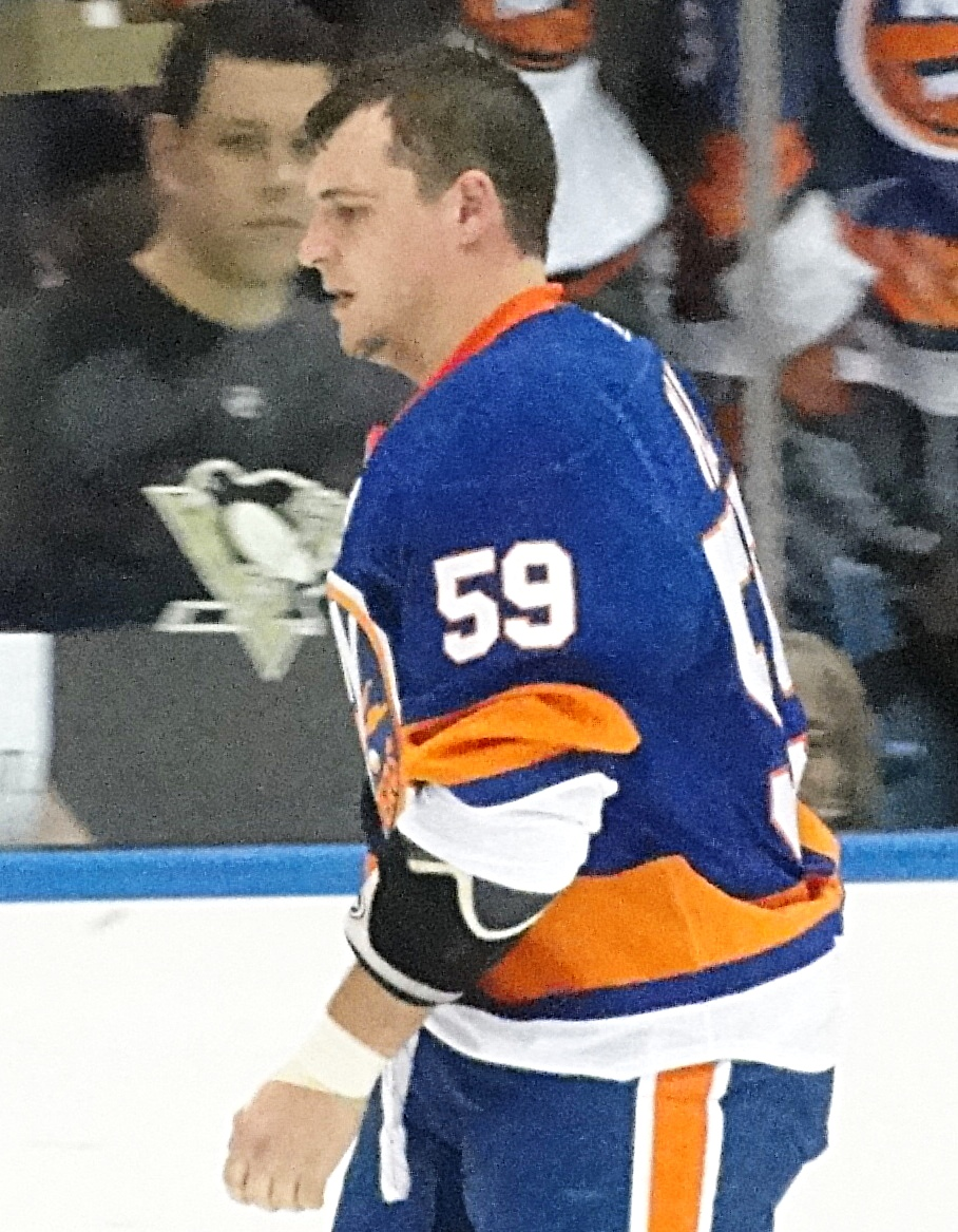 New York Islanders forward Micheal Haley heads to the box to serve seven of his game high 39 penalty minutes during a game against the Pittsburgh Penguins, February 11, 2011 at Nassau Veterans Memorial Coliseum in Uniondale, NY.